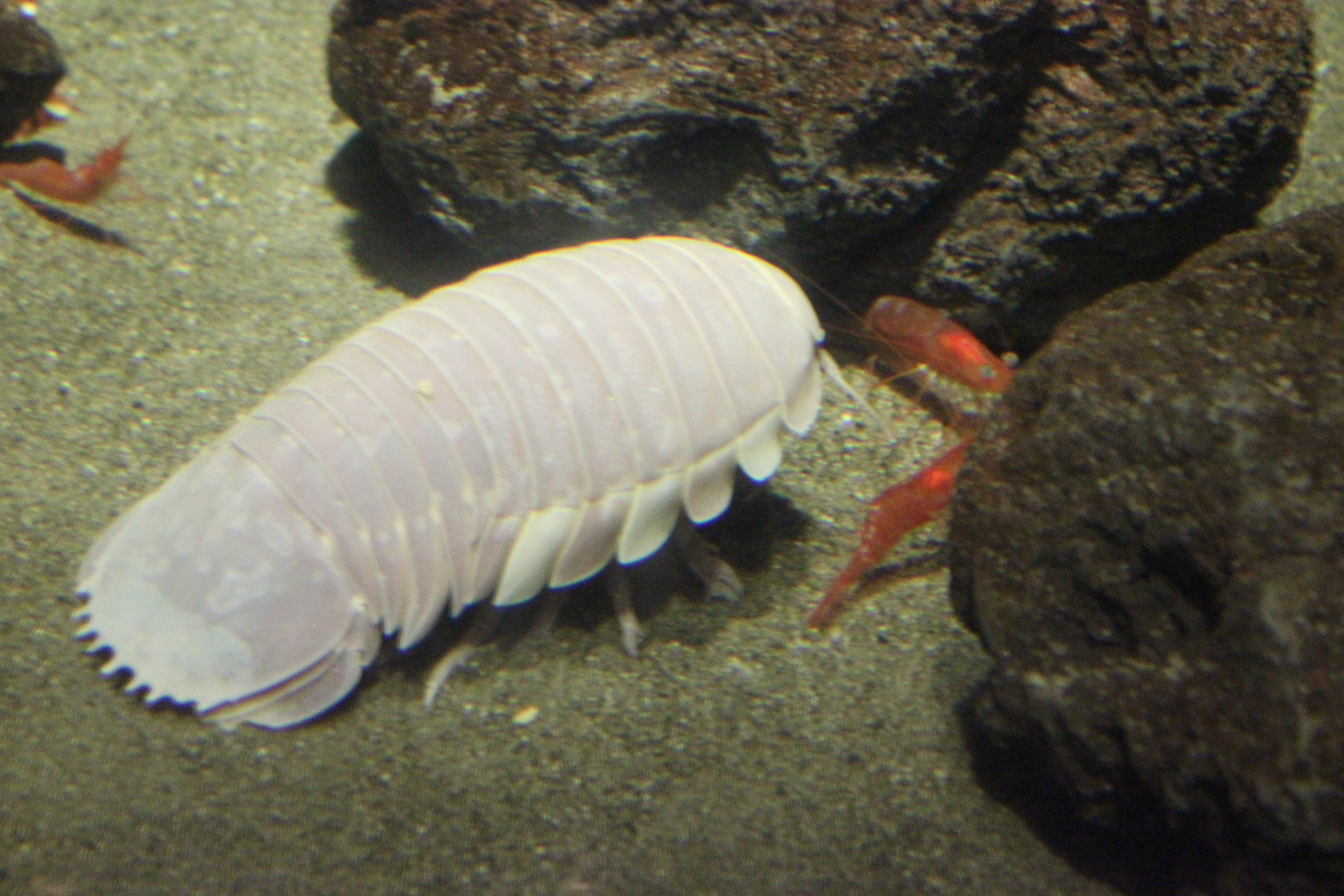 Deep sea creatures. A giant isopod (Bathynomus) and red deep-sea shrimp at Tokyo Sea Life Park, Japan.